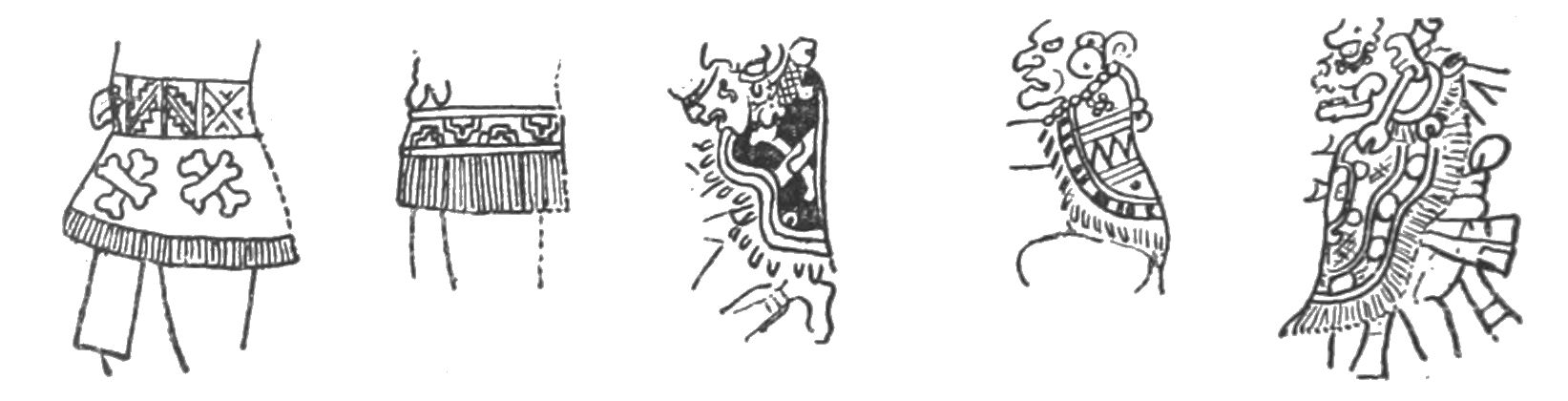 Fig. 44. Prehistoric Sketches of Textile Designs from the Maya.